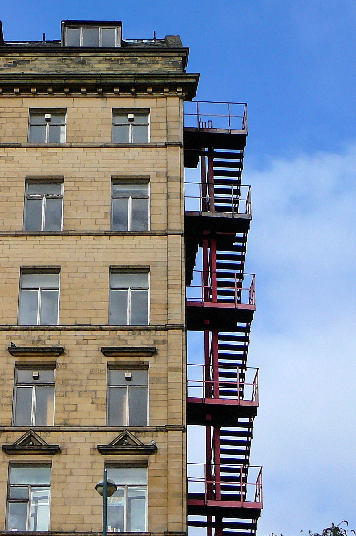 Cheapside, Bradford; from Forster Square Station